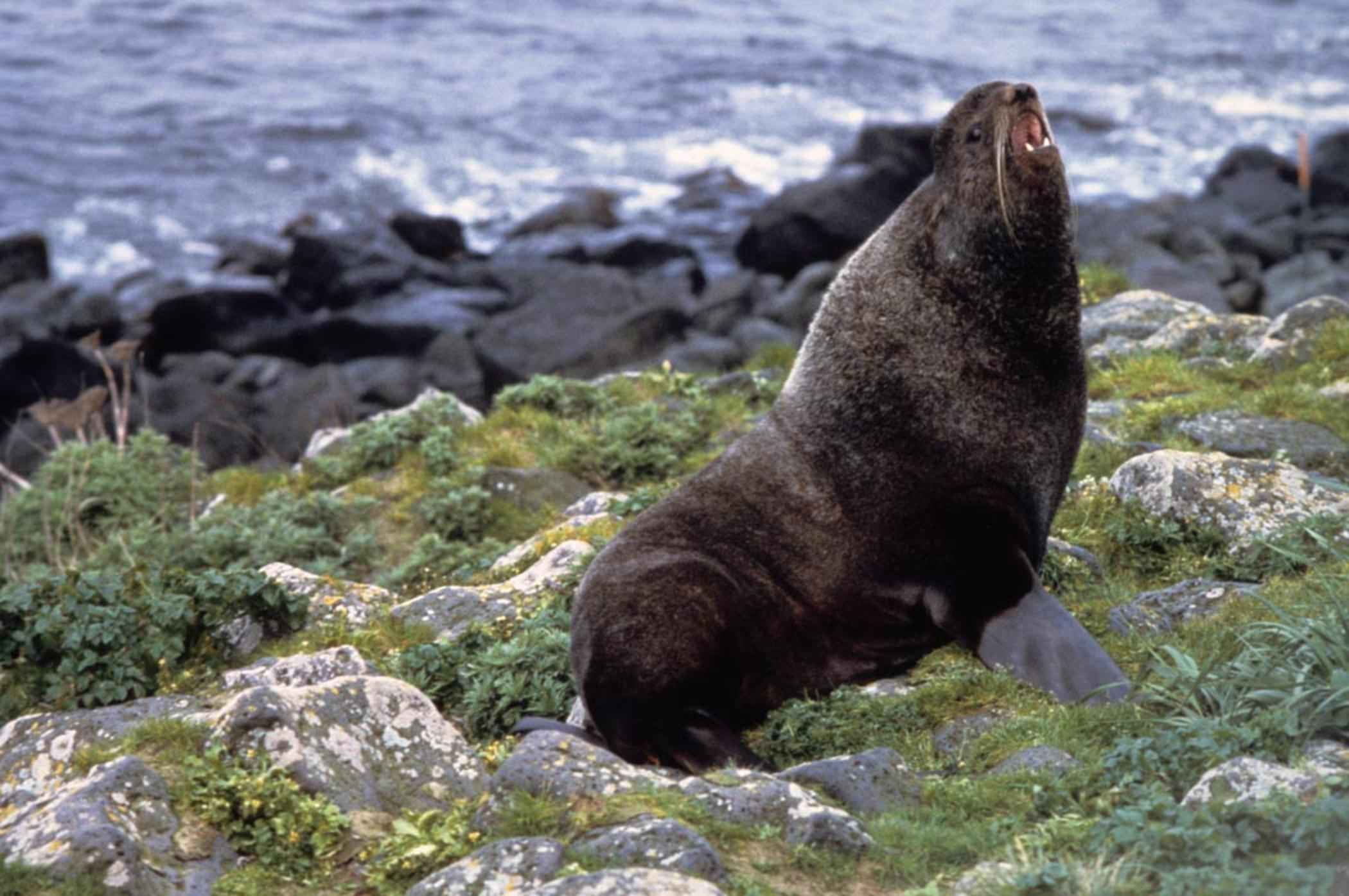 Image title: Northern fur seal callorhinus ursinus Image from Public domain images website